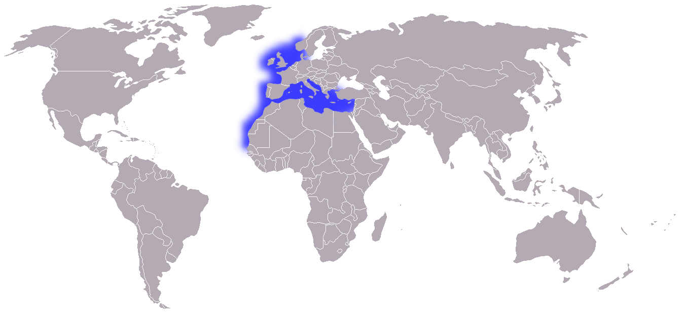 Distribution of Small-spotted catshark (Scyliorhinus canicula)